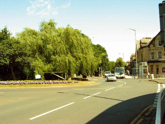 Hunter's Bar roundabout. This is the main road junction in the square. On any weekday morning at 8:30 it is pretty much locked solid. Just visible under the trees is a modern gate, a rather strange reminder of the original toll gate or Bar.